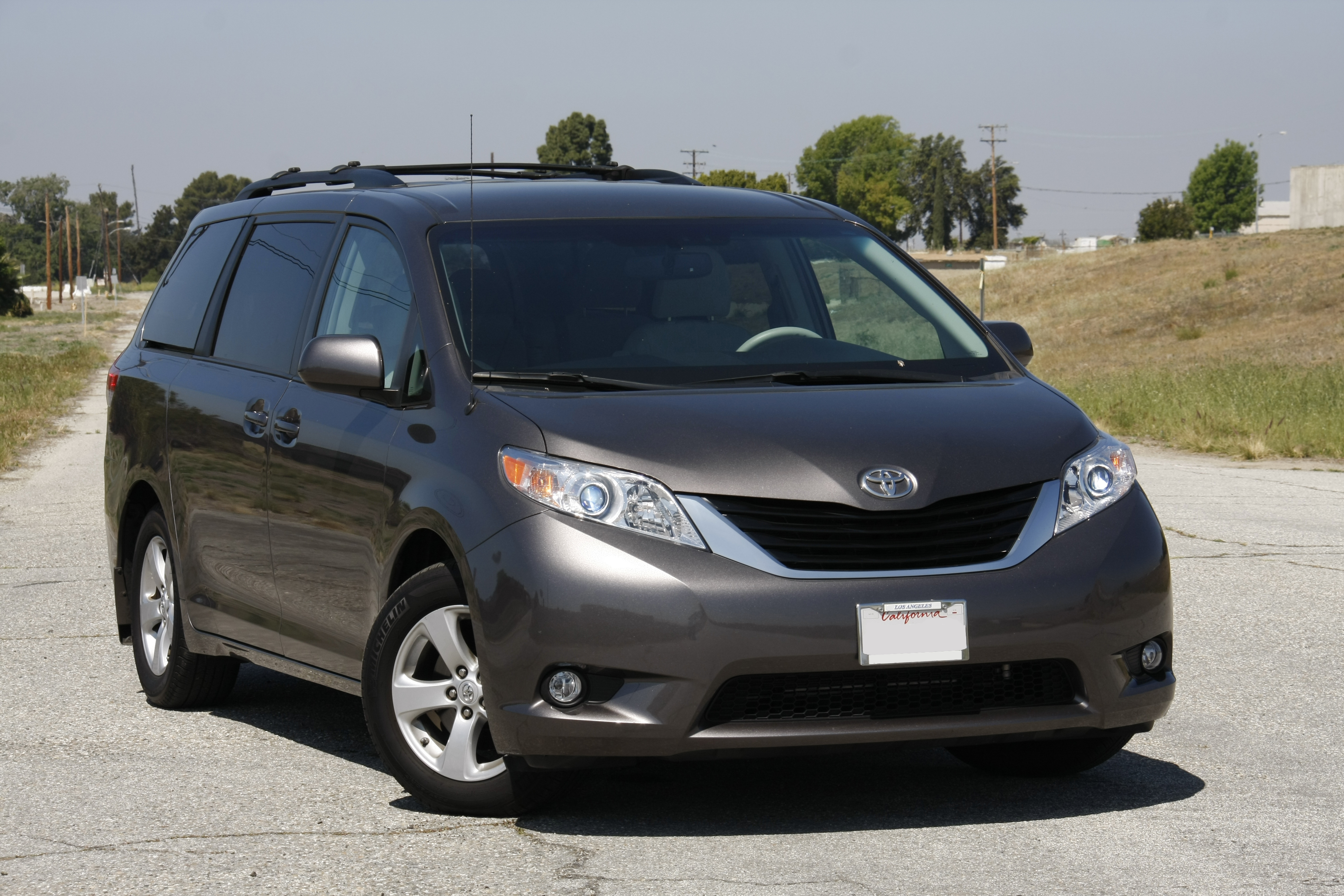 A 2012 Toyota Sienna.